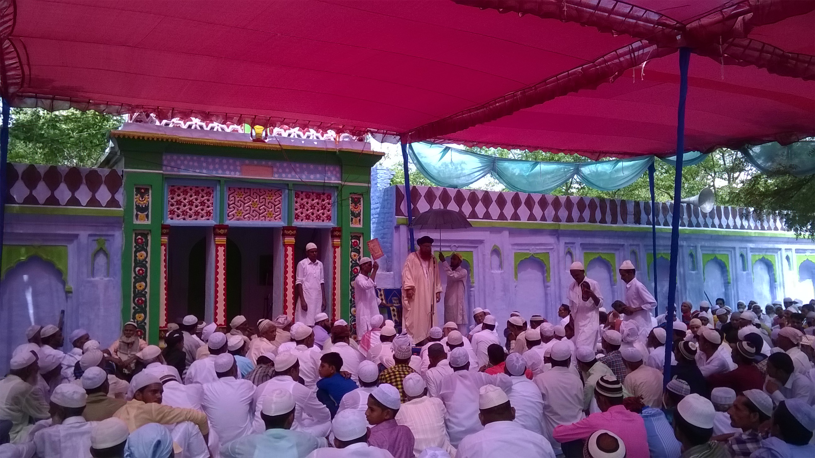 On Eid Day in Eidgah Of Bahraich people offering Namaz